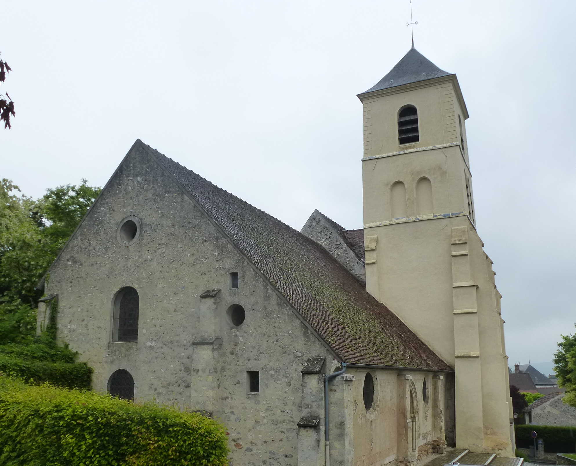 Saint-Etienne Church in Chamigny, France